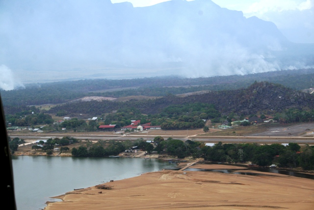 La Esmeralda air view. Amazonas state. Venezuela.